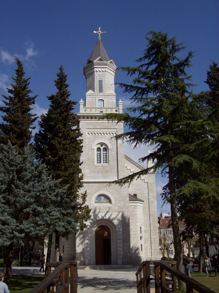 Holy Transfiguration Orthodox Cathedral, Trebinje